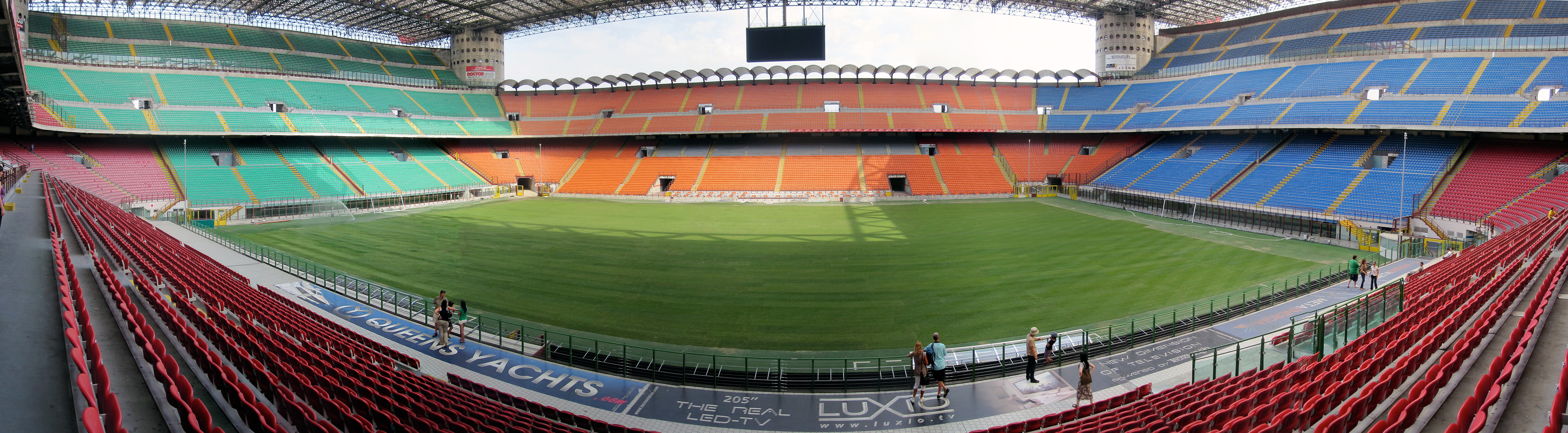 Stadio Giuseppe Meazza - San Siro (2011)